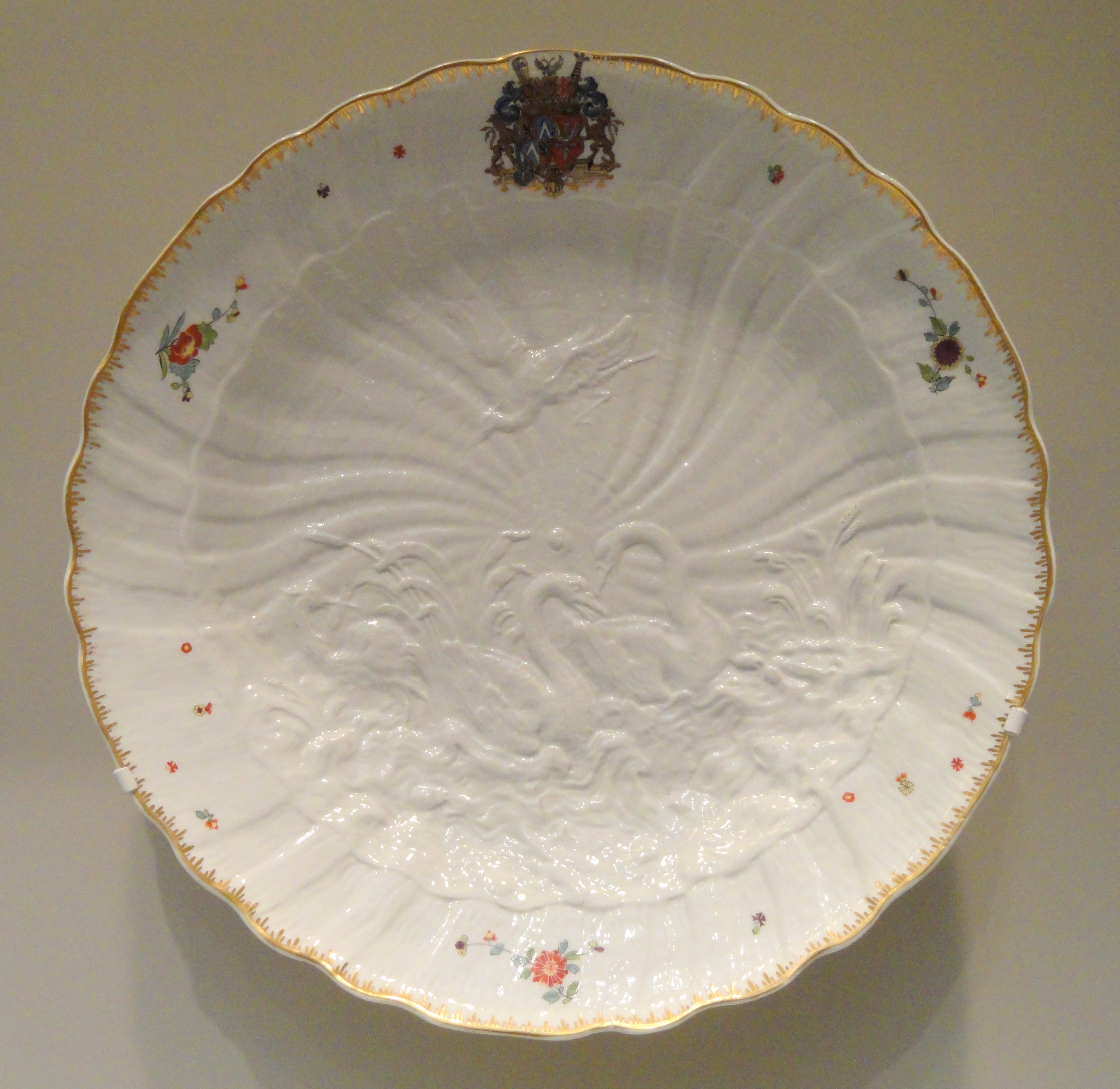 Exhibit in the Art Institute of Chicago, Chicago, Illinois, USA. This artwork is in the public domain because the artist died more than 70 years ago.